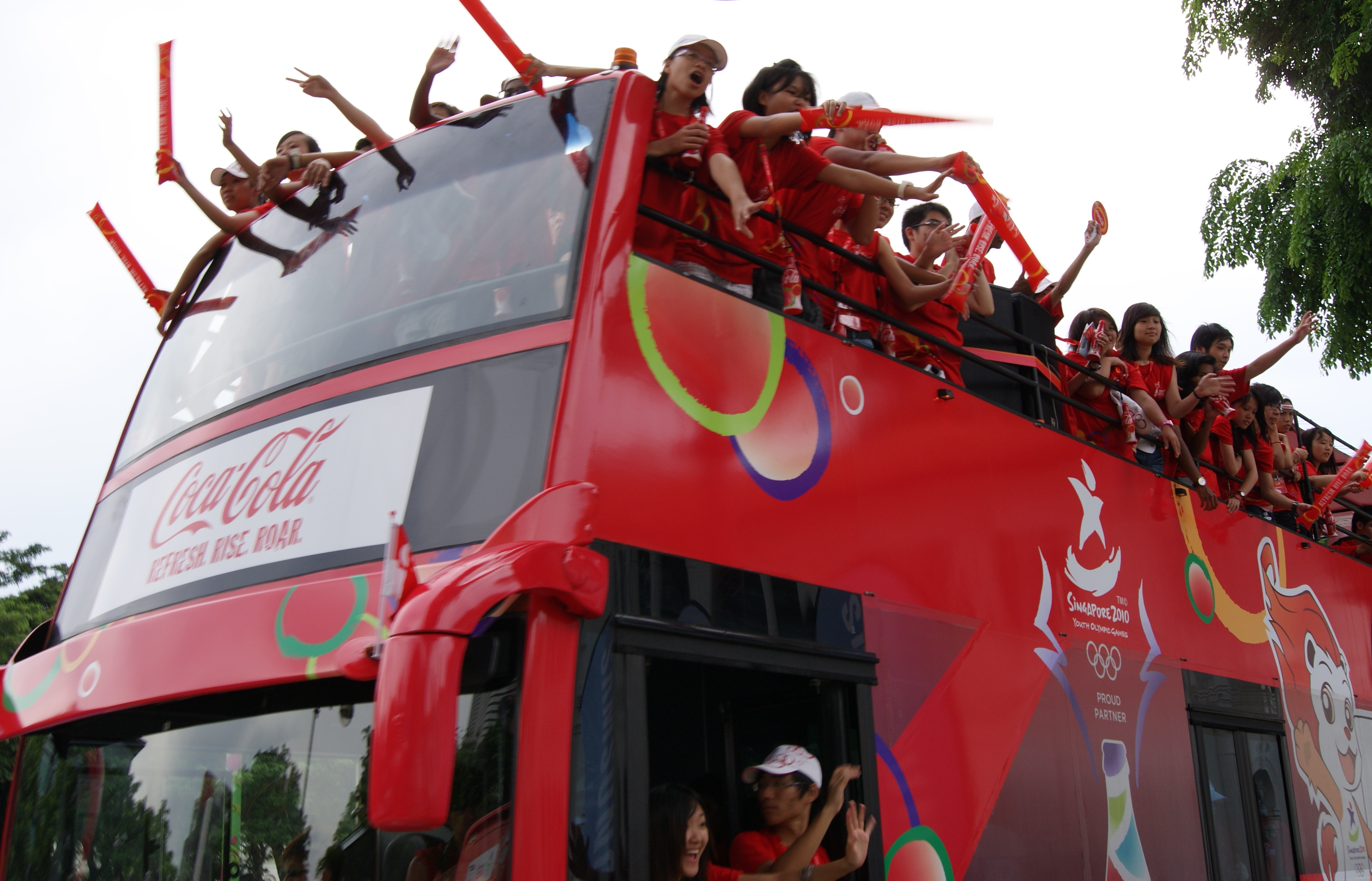 Day 6, the final day, of the 2010 Summer Youth Olympics torch relay in Singapore. Supporters cheering and blowing noisemakers on an open-top coach in the mobile column ahead of the torchbearer along Bras Basah Road in front of the Singapore Art Museum.